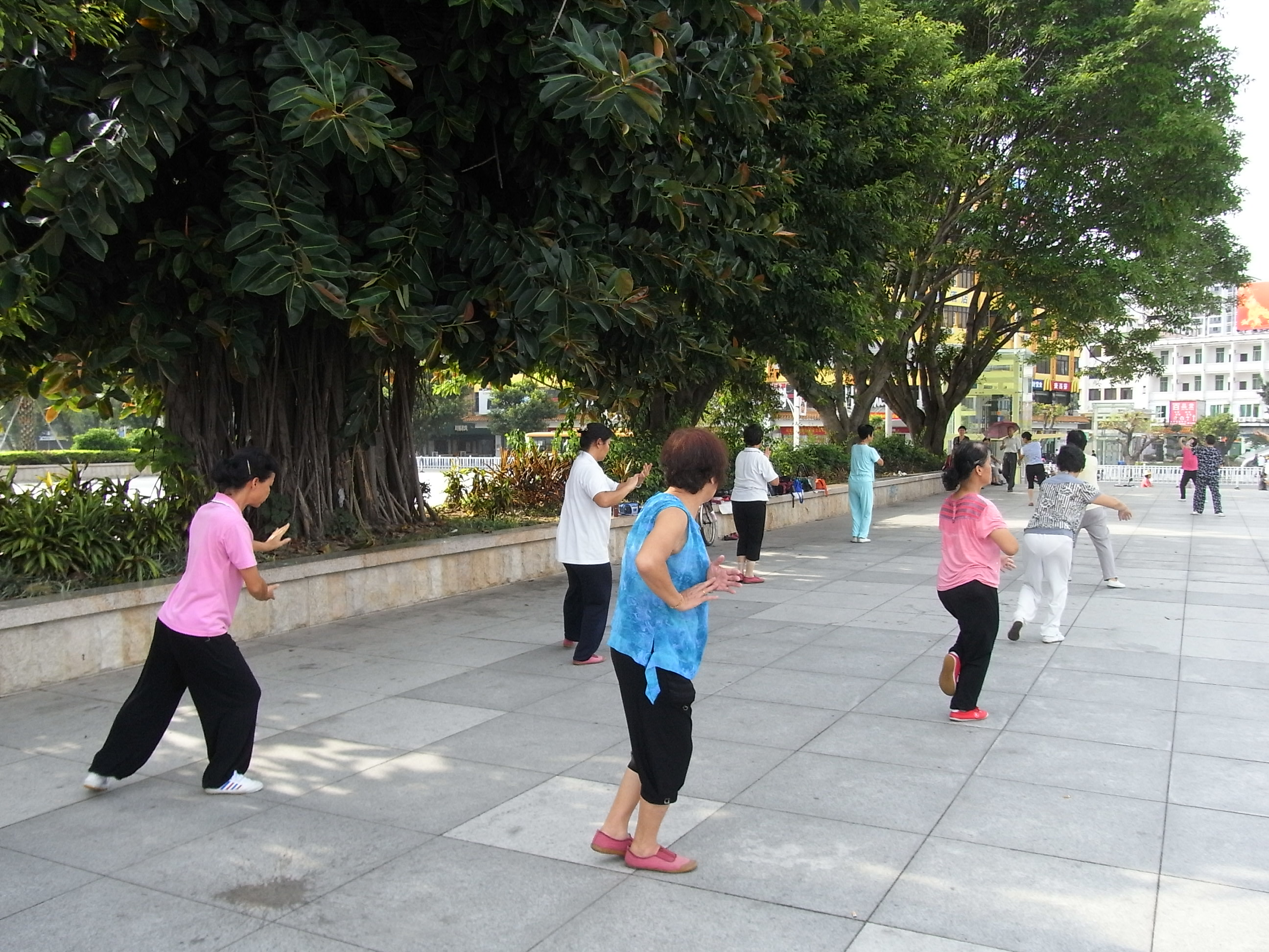 Seven Star Crags Park, 肇慶市 七星岩公園廣場, Zhaoqing City, Guangdong